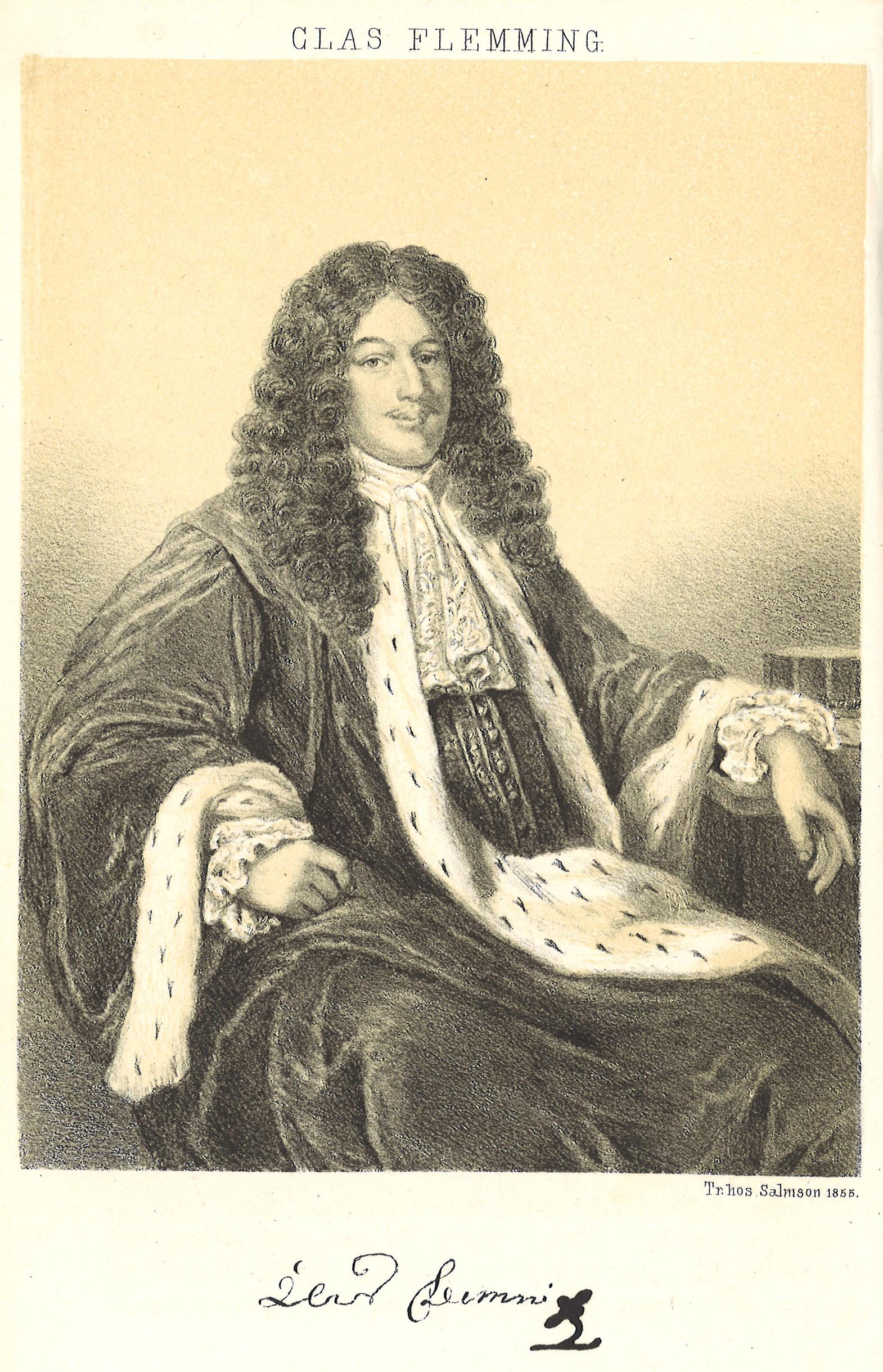 Claes Fleming (1649–1685), Swedish baron, civil servant, county governor and "lantmarskalk" (chairman of the estate of nobility).